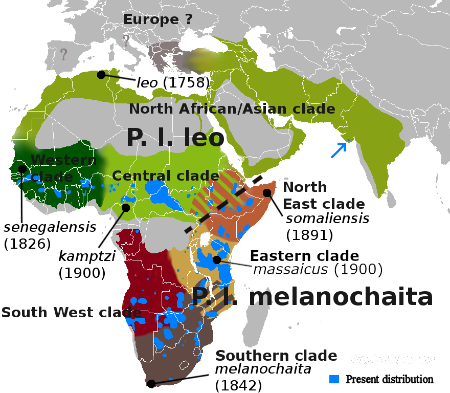 Range map of the lion (Panthera leo), including present distribution (blue) and historic distribution of genetically distinct lion clades (coloured). Indicated are sites of important type specimens (including year of publication) and the border (dashed line) between the currently recognized two subspecies (P. l. leo and P. l. melanochaita).